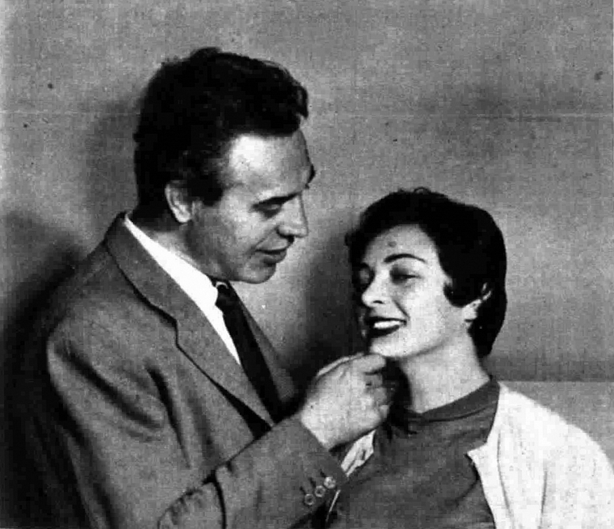 Italian actors Roldano Lupi and Franca Maresa